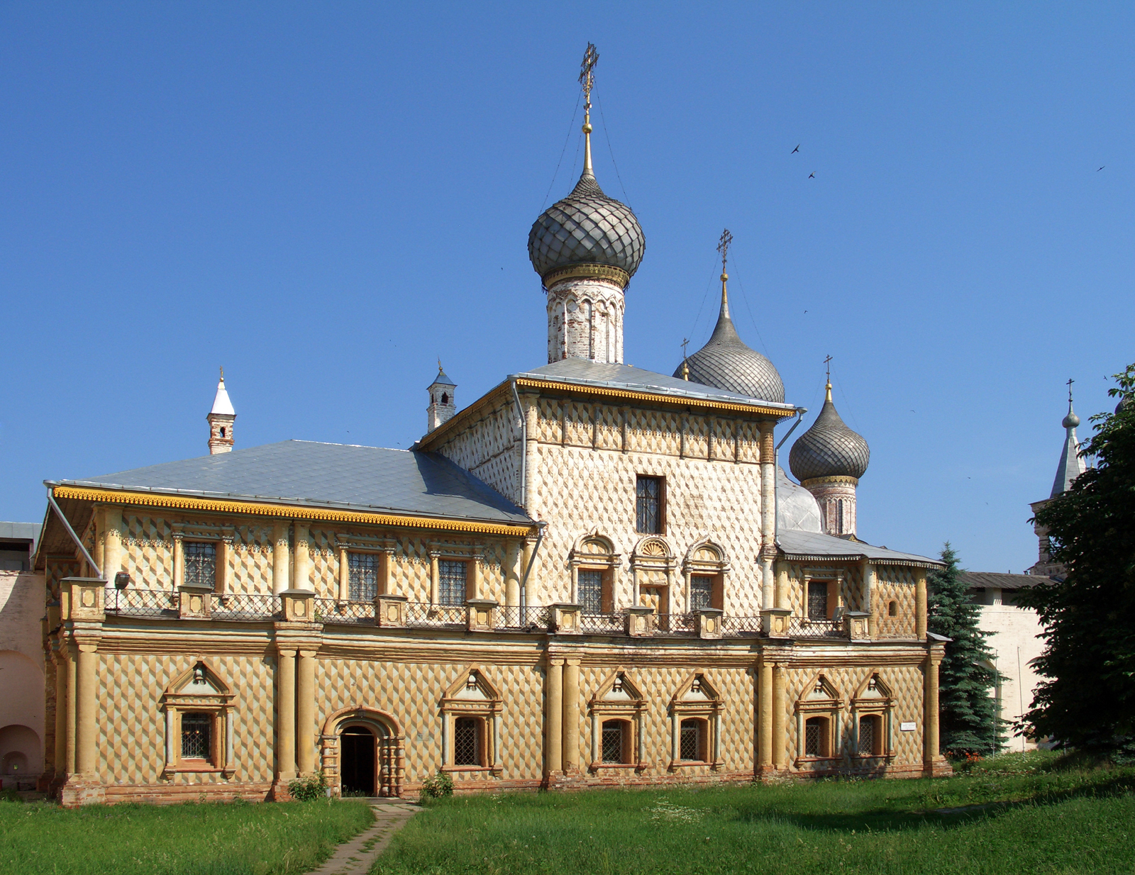 Church of the Virgin Hodegetria, Rostov Kremlin